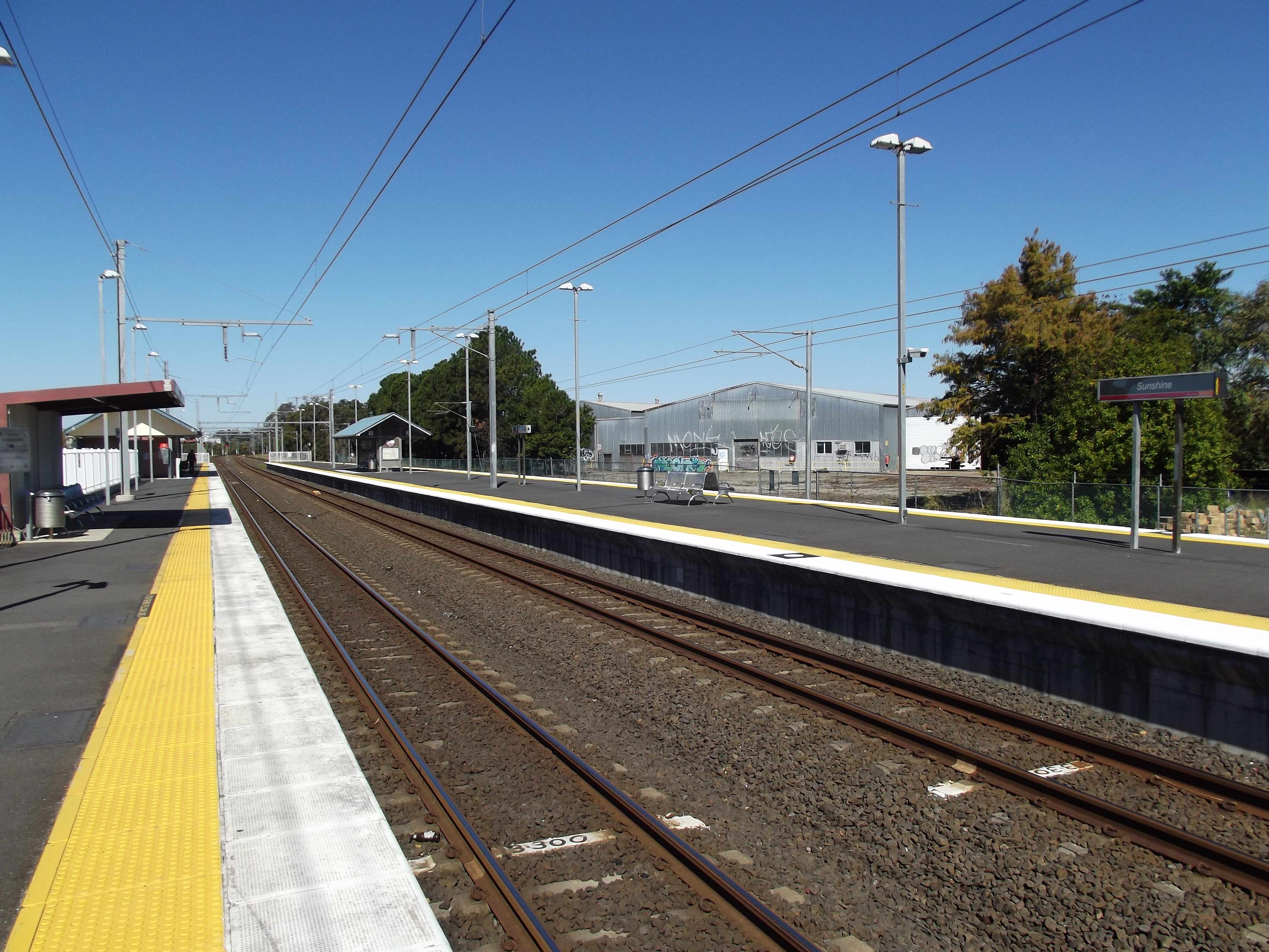 Sunshine station, on the Caboolture line.